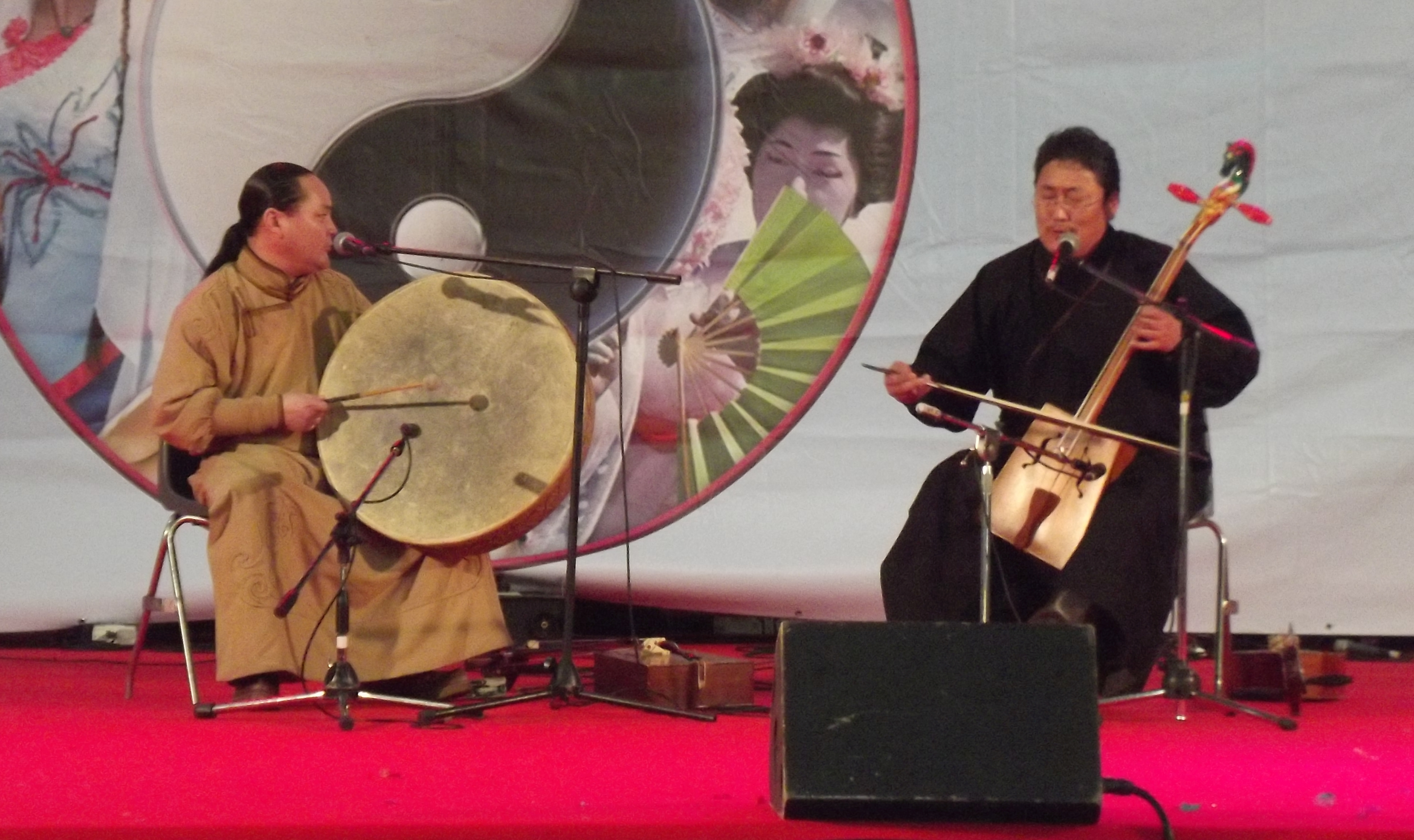 Egschiglen in Turin (festival dell'Oriente - March 2015)